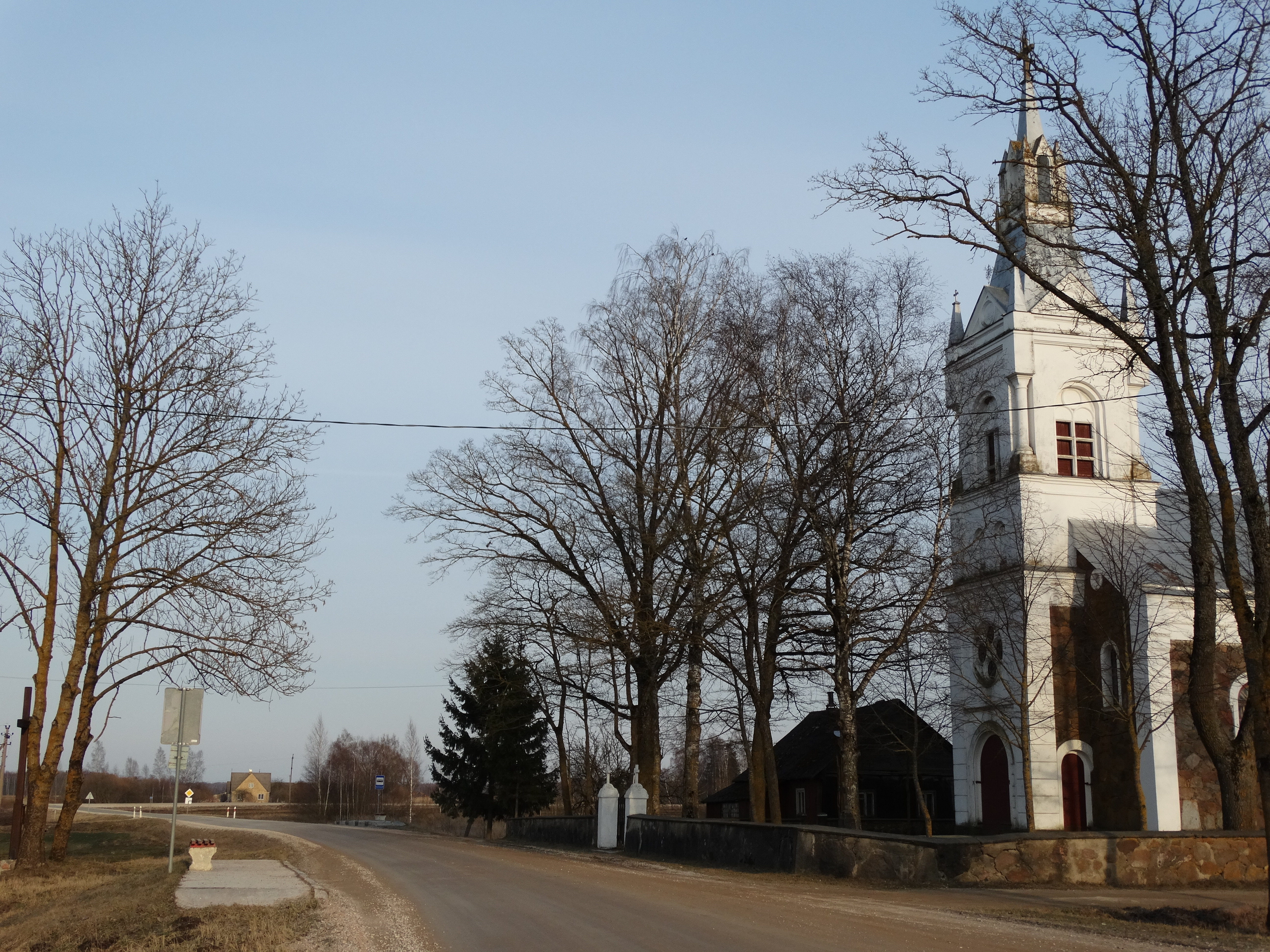 Velykiai, Panevėžys district, Lithuania